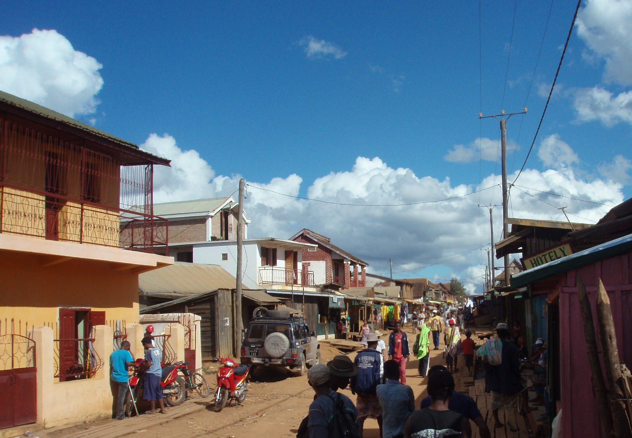 View along the main road in Andilamena in southern direction